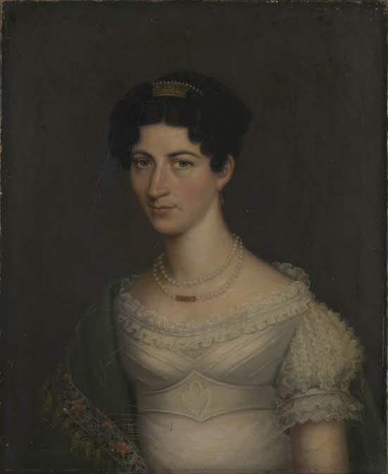 Amalie Charlotte Auguste Wirths vermaehlt mit Georg Friedrich Carl Graf zu Waldeck und Pyrmont Herr zu Limpurg Gaildorf